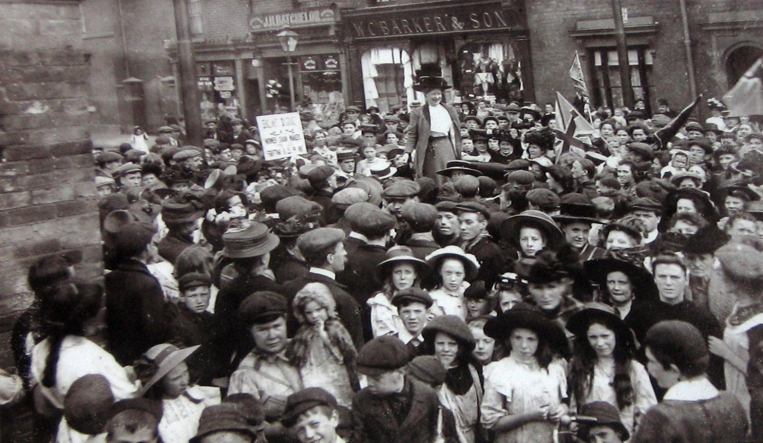 Cropped photograph of Mary Macarthur addressing the crowds during the chainmakers' strike, Cradley Heath, Sandwell, West Midlands, England